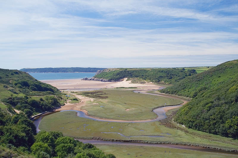 Early stages of formation of coastal ox-bow lake showing typical shape of river course. Pembrokeshire, UK